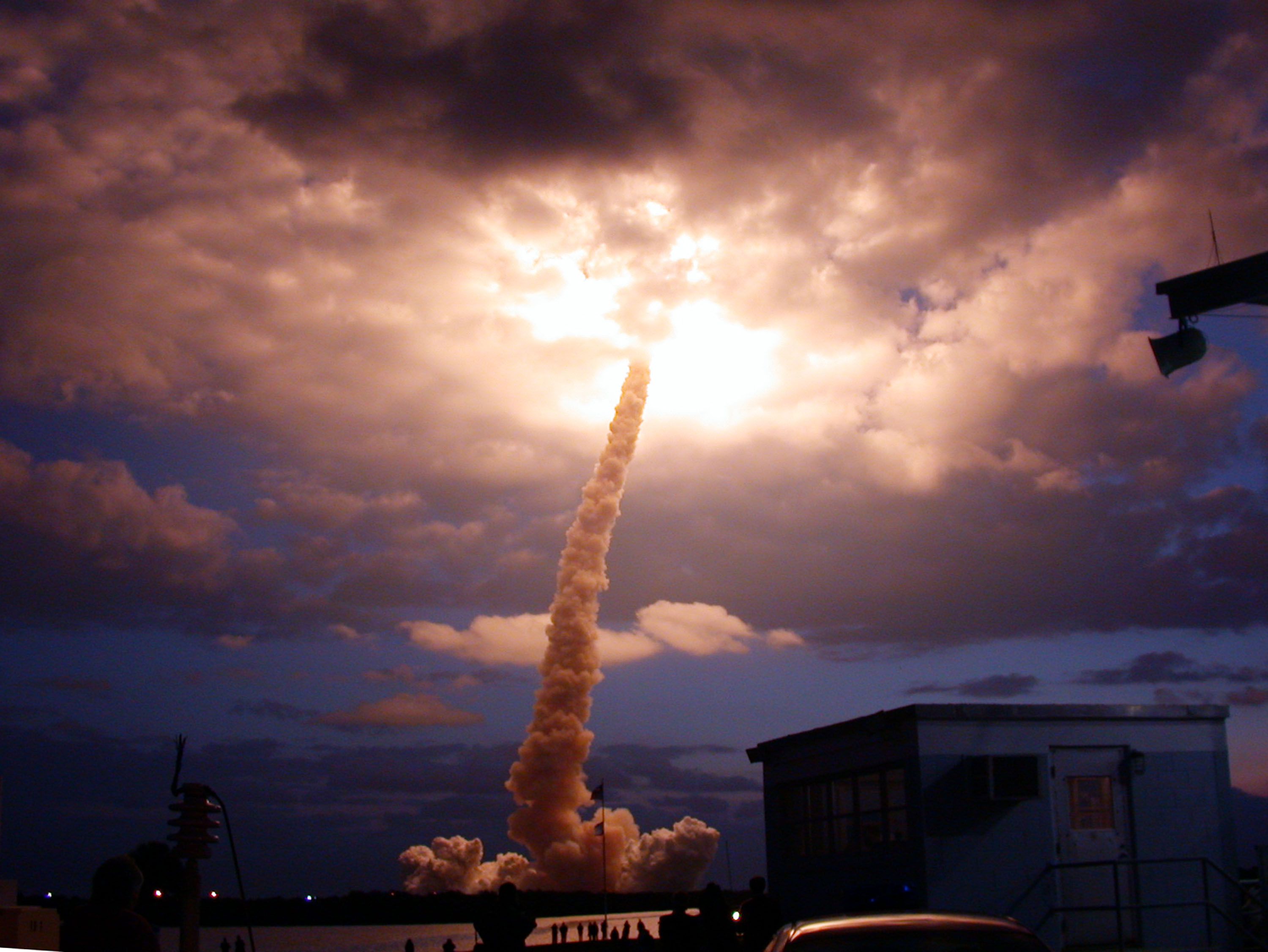 Spaceship Columbia launch at dawn Caption: "KSC-02PD-0217 (03/01/2002) --- KENNEDY SPACE CENTER, FLA. -- Space Shuttle Columbia emblazons the pre-dawn clouds as it soars into the sky on its 27th flight into space on STS-109. Liftoff occurred at 5:22:02:08 a.m. CST(11:22:02:08 GMT). The goal of the mission is the maintenance and upgrade of the Hubble Space Telescope, to be carried out in five spacewalks."